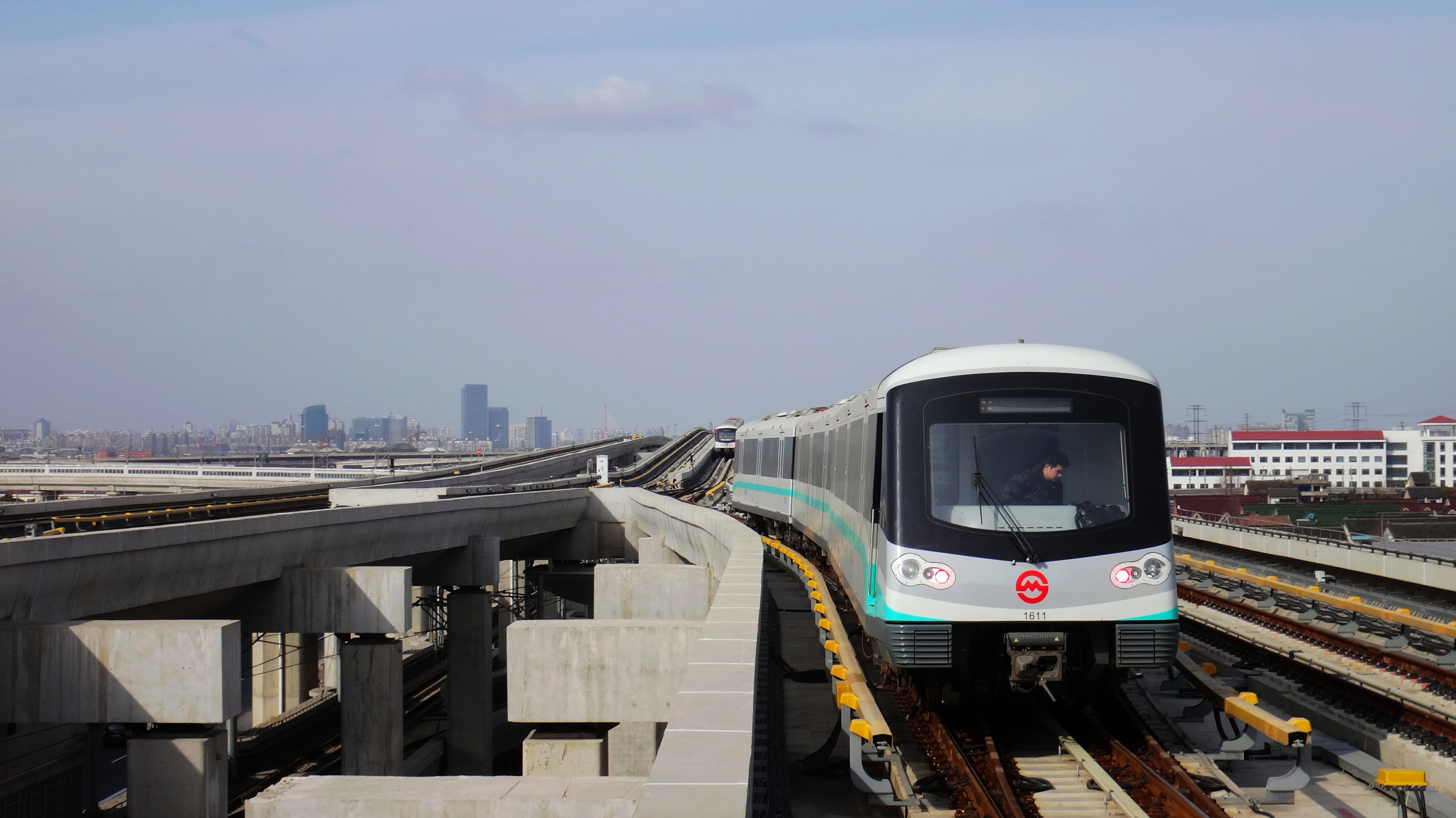 Shanghai Metro Line 16 Train 1611 leaving Luoshan Road Station